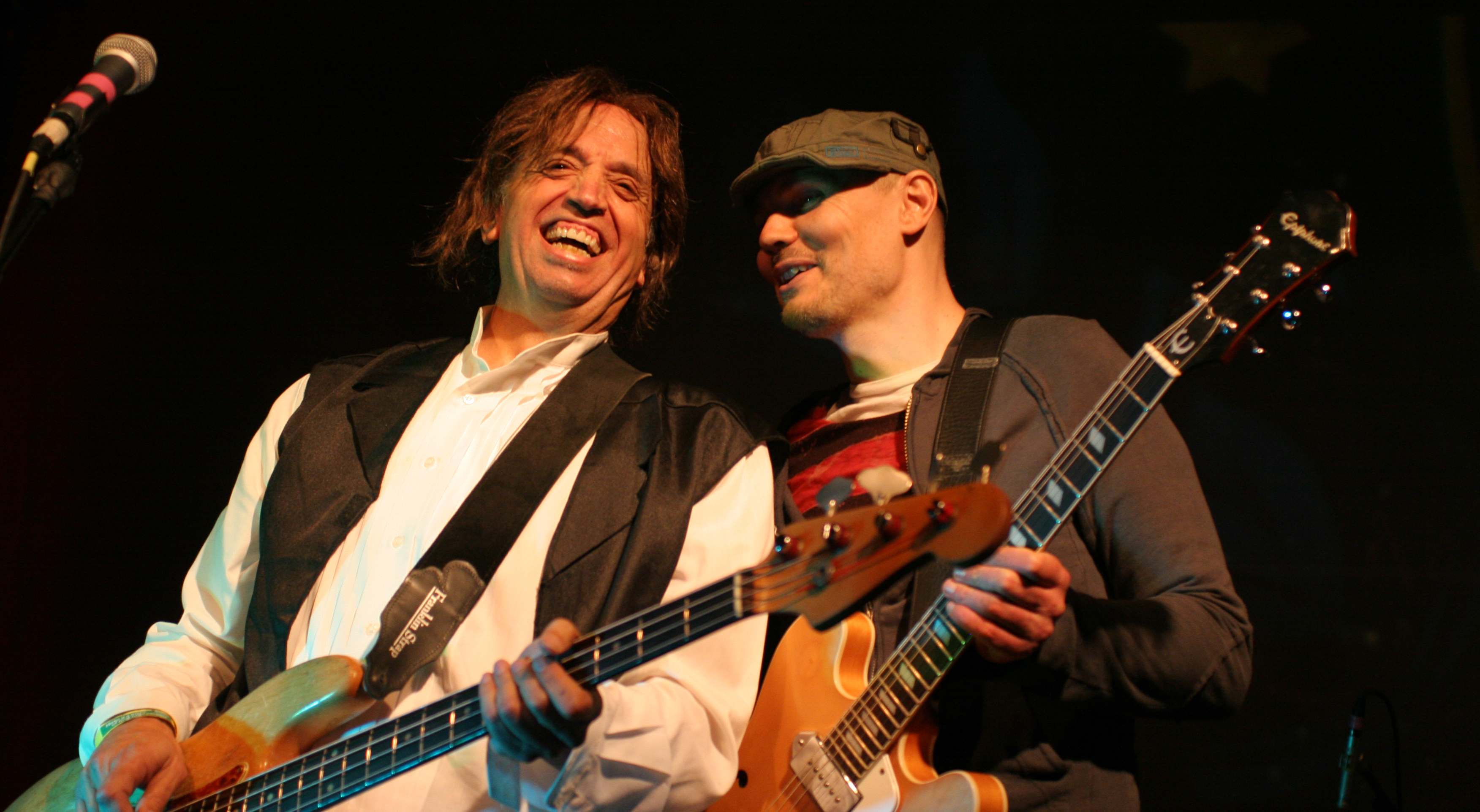 Mark Tulin playing bass guitar with Billy Corgan on guitar as part of a benefit concert with Electric Prunes.